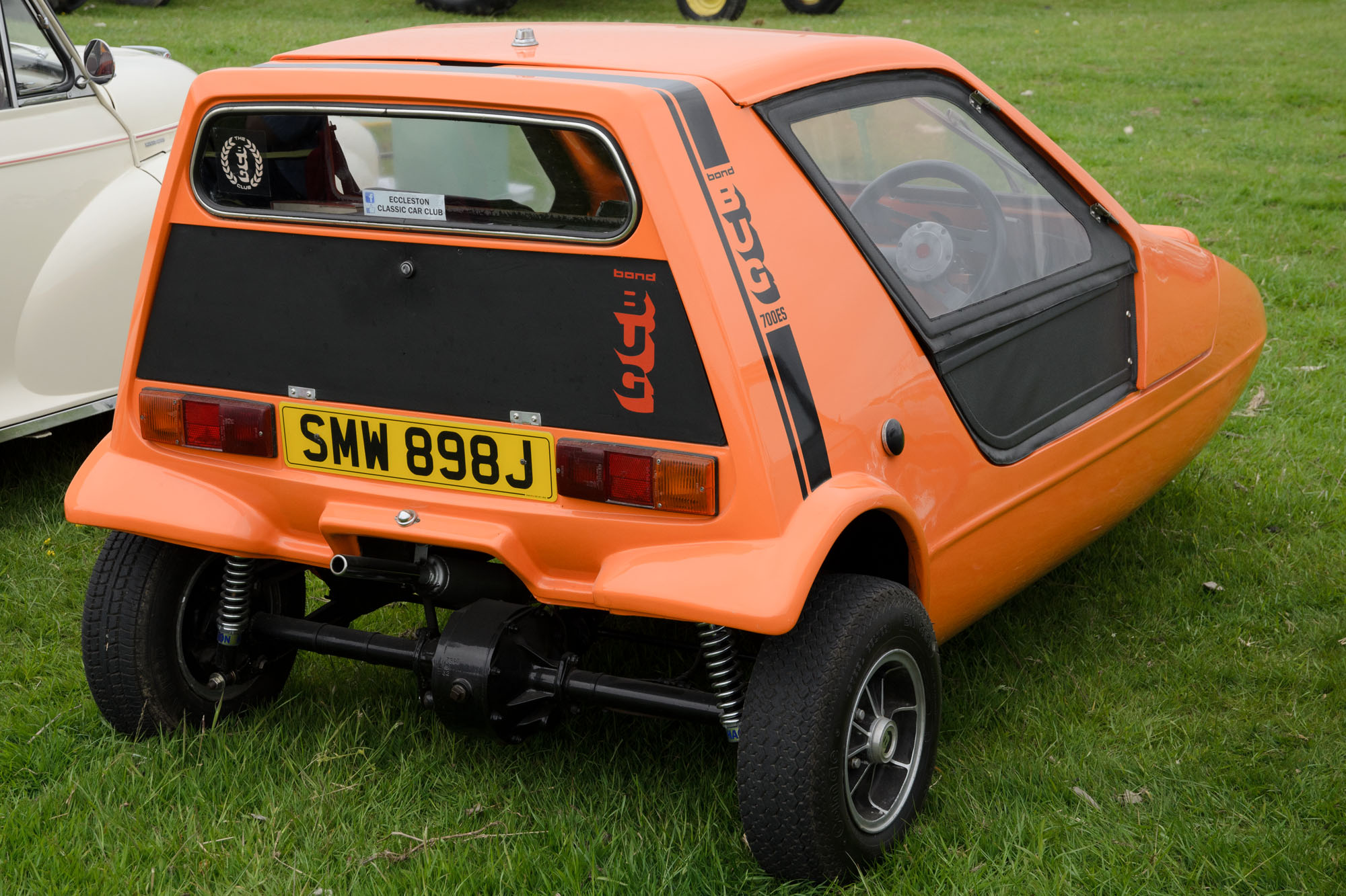 Heskin Hall Steam Fair 04/06/2016